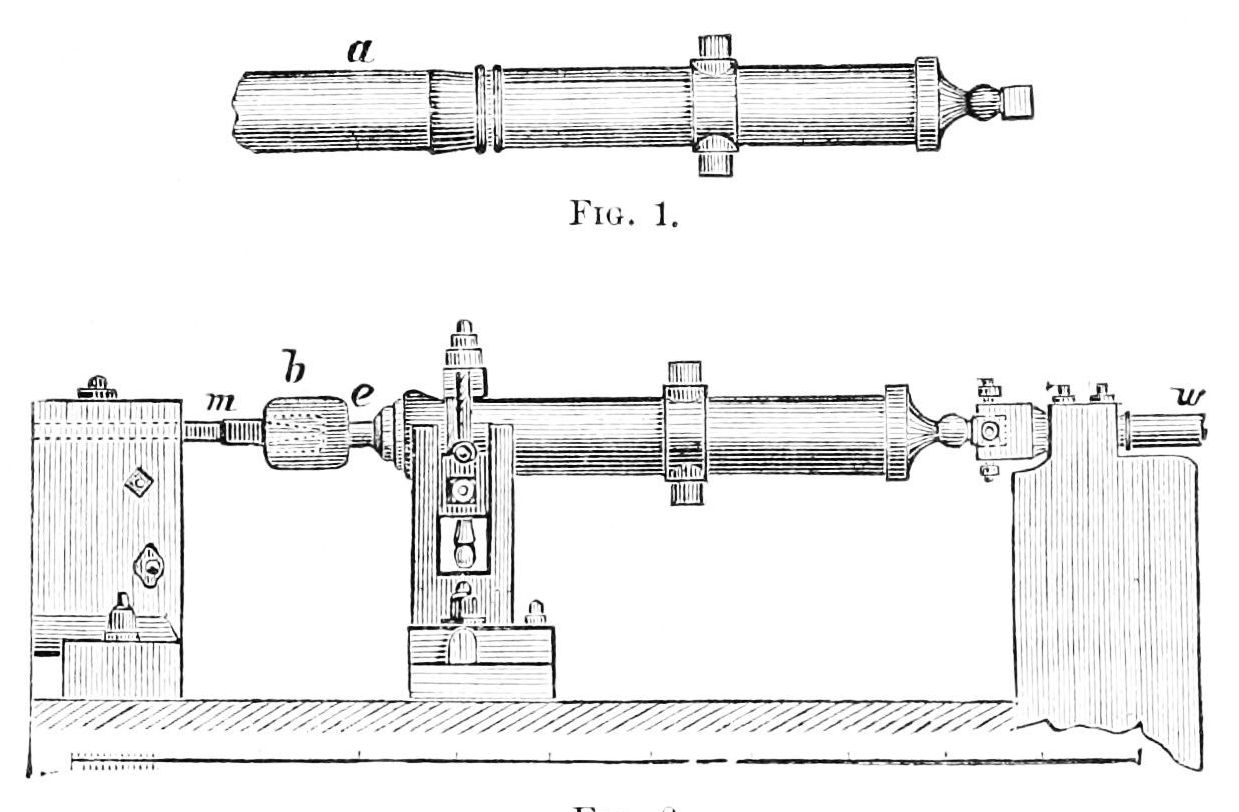 Cannon boring lathe setup